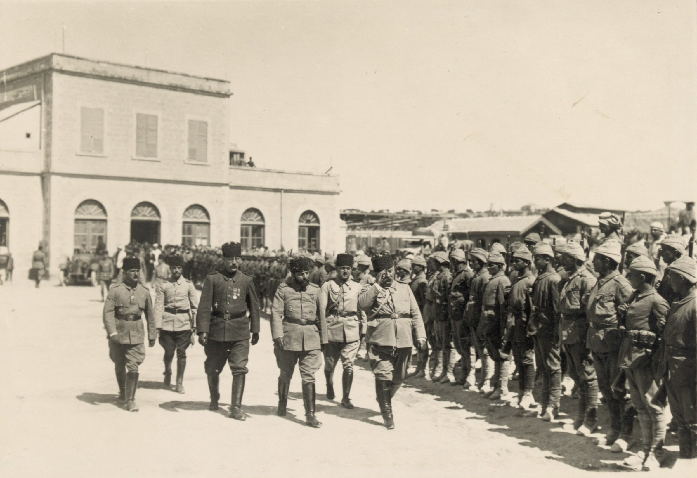 Izzat [Izzet] Pasha Commander of Caucasus Front arriving in Jer[usalem], 1917. LC-DIG-ppmsca-13709-00190 (digital file from original on page 54, no.189).